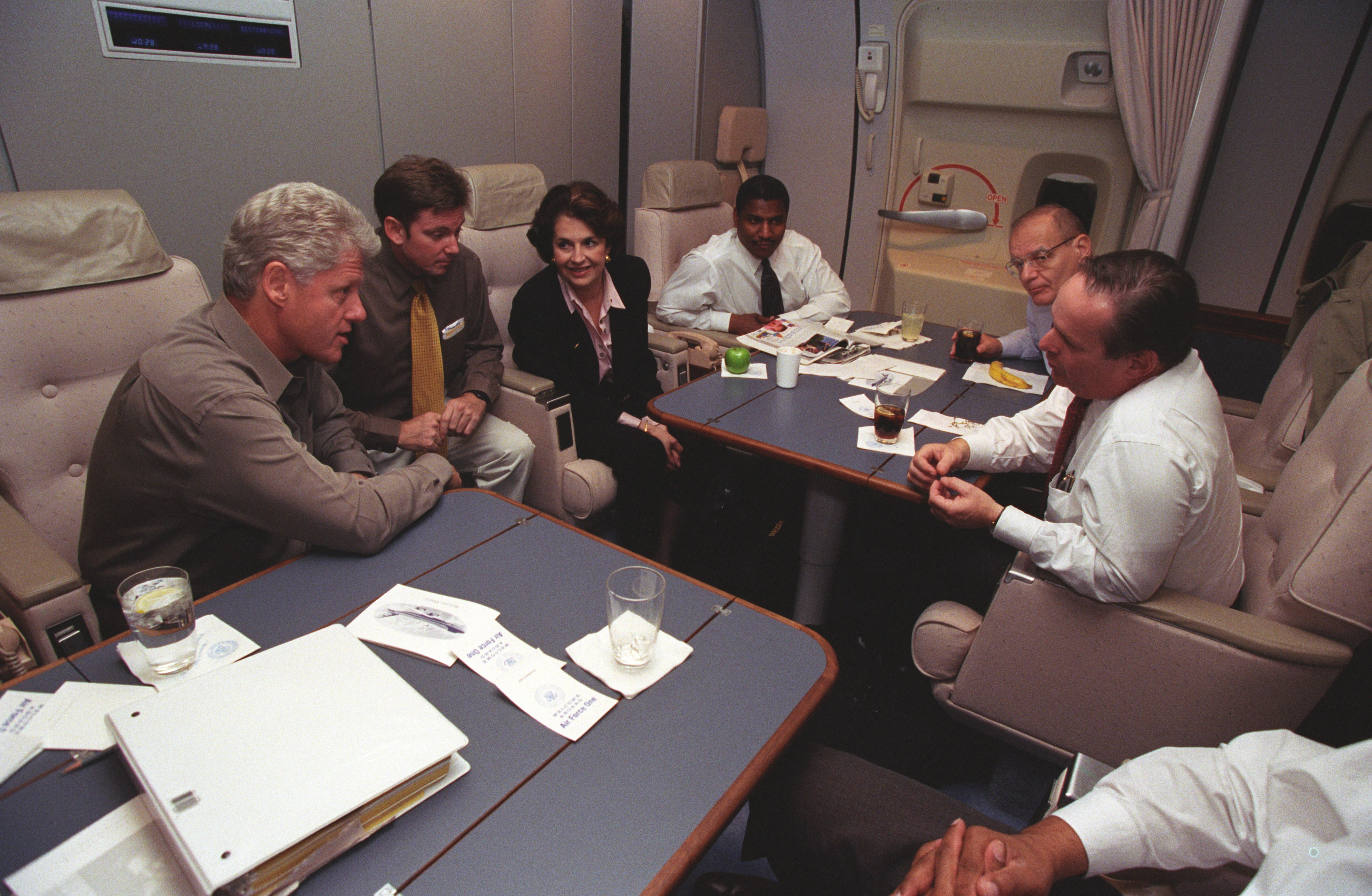 President Bill Clinton meeting on Air Force One with advisers (R to L) Al From, Richard Riley, Rodney Slater, Aida Alvarez, and Kirk Hanlin.